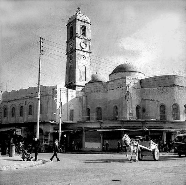 Latin Church, also known as Dominican Fathers' Church, in Mosul, Iraq.